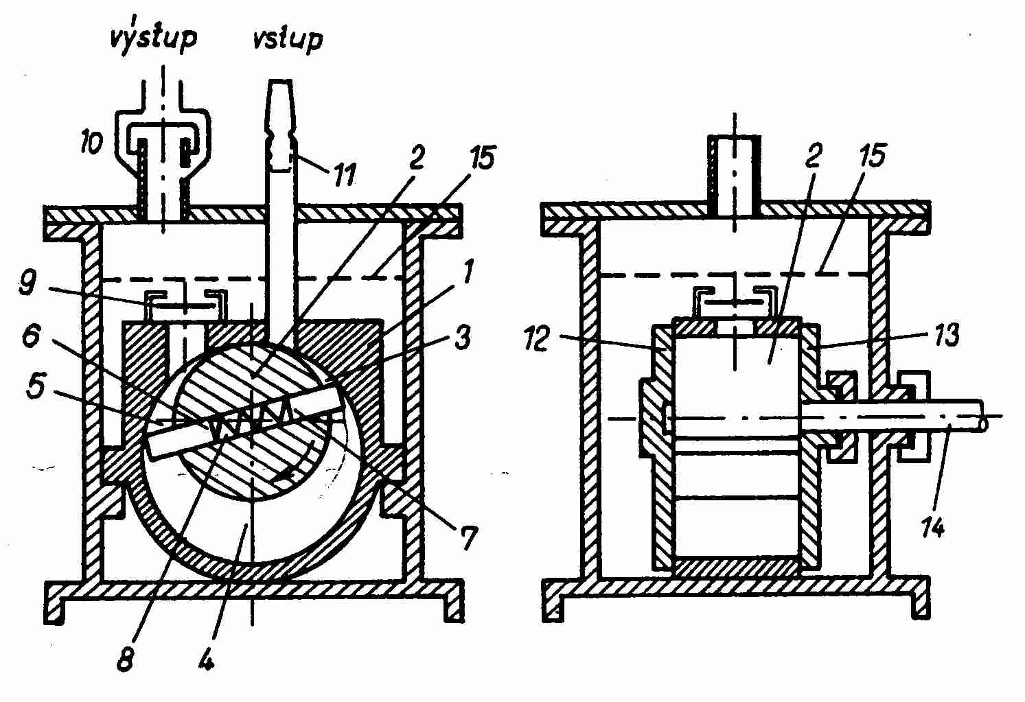 Rotary oil pump